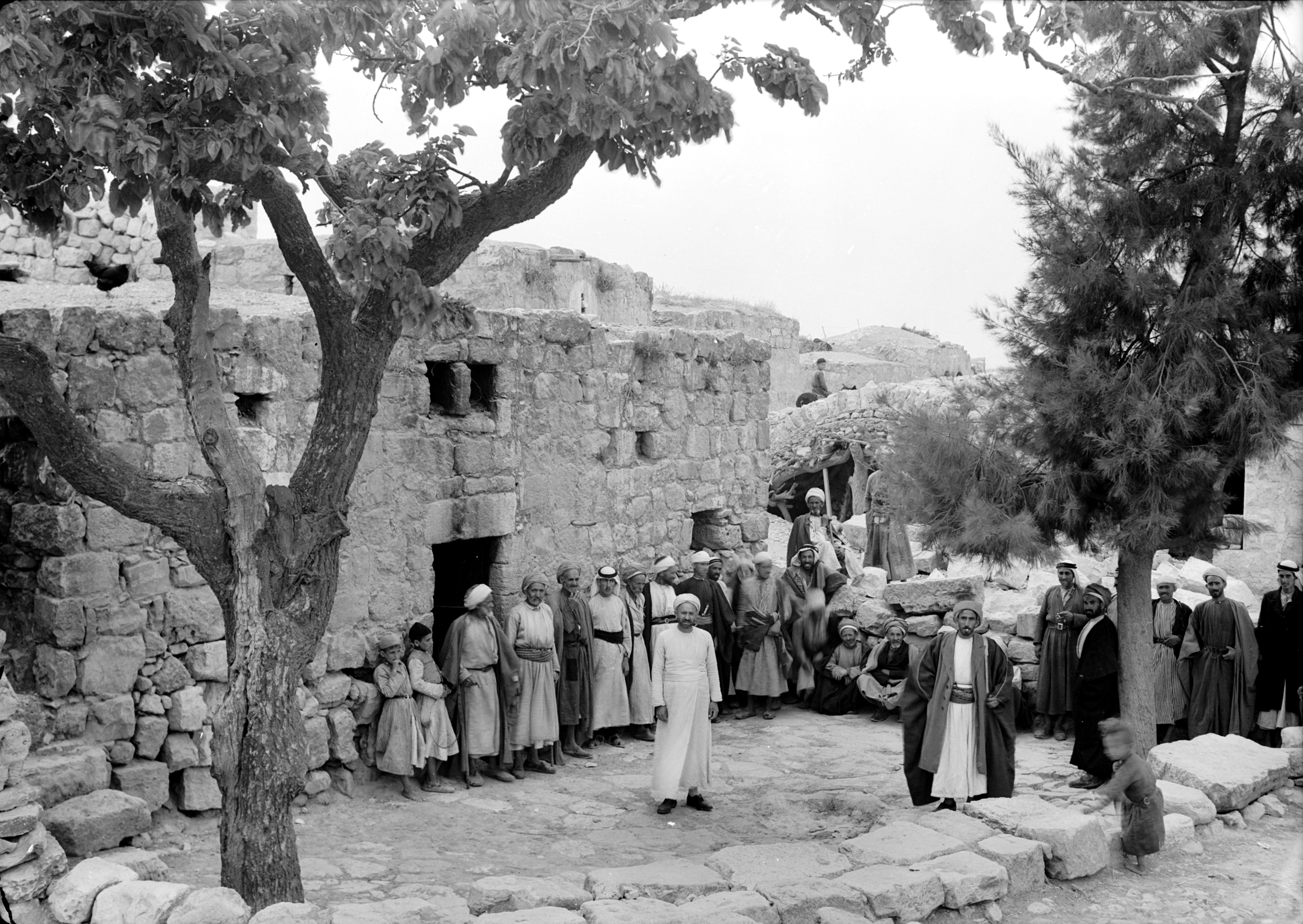 Halhul village at kilom[eter] 30 on Hebron road. Courtyard in front of guest chamber, Halhul.